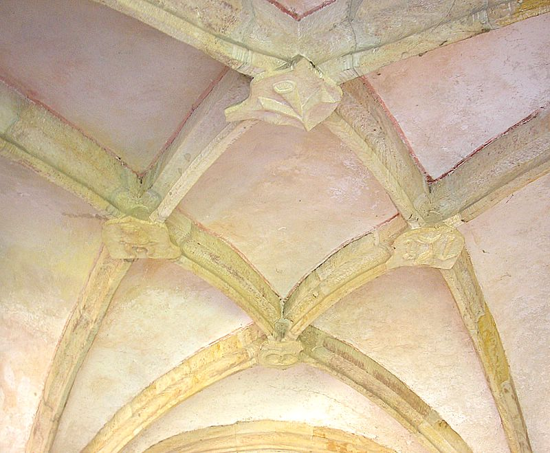 Ebern (Landkreis Haßberge, Lower Franconia, Germany). Vaulting of the former ossuary (Karner) next to the Parish church St. Laurentius